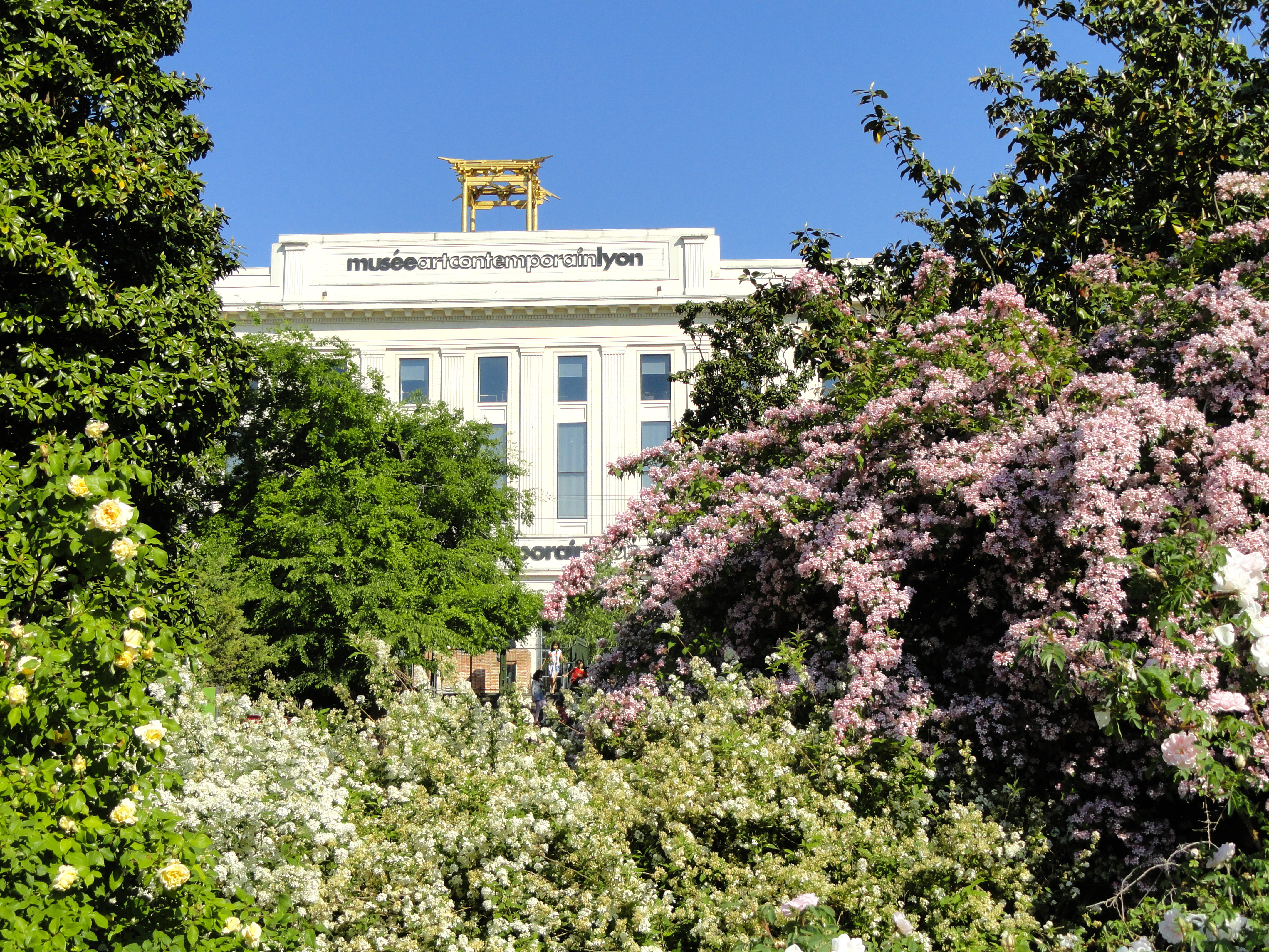 General view of the Parc de la Tête d'Or, Lyon, France.